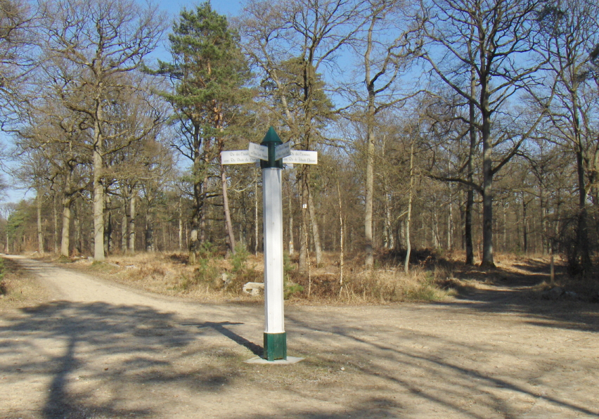 Crossroad in the middle of Forêt d'Ermenonville